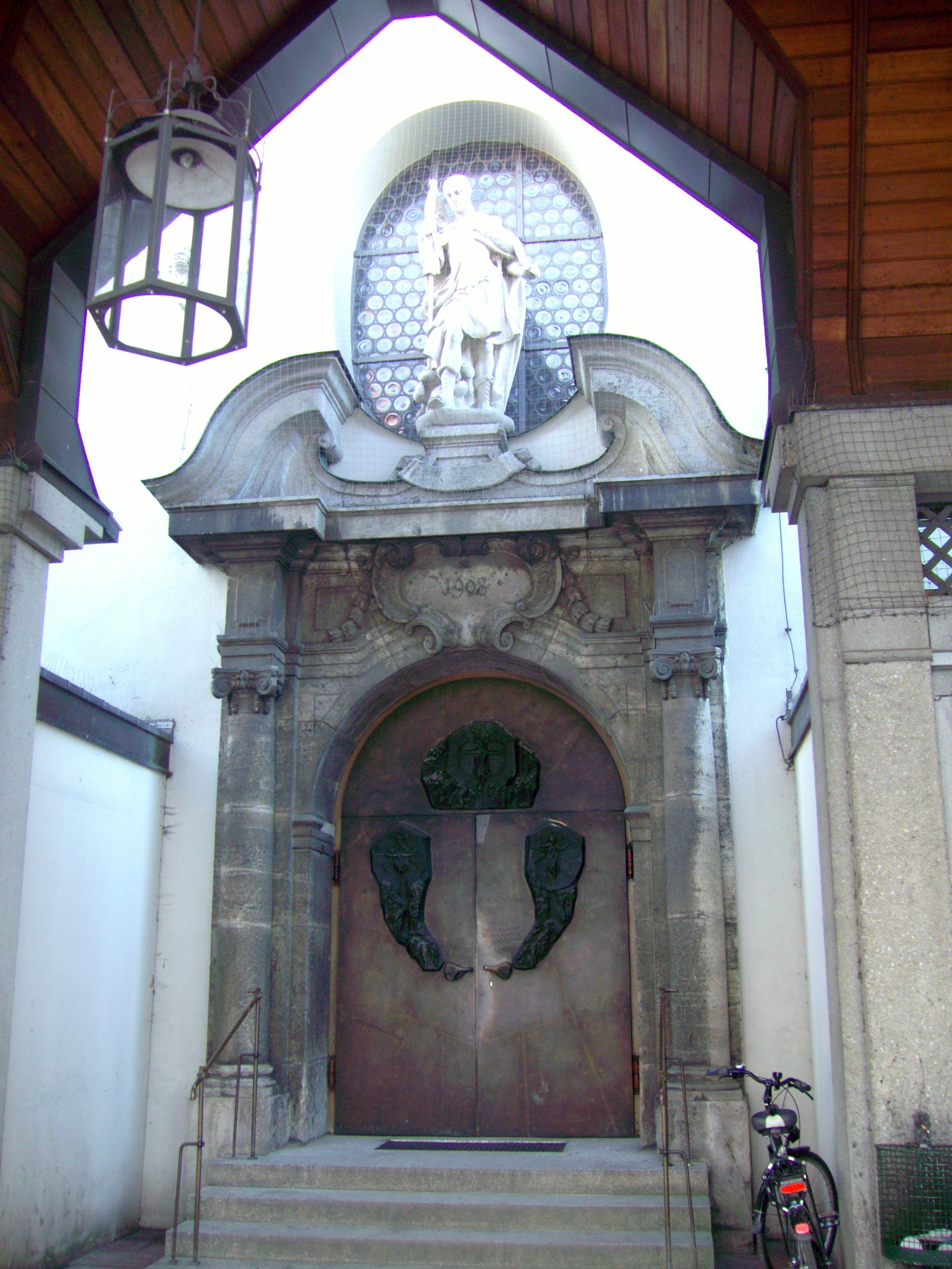 Entrance of church St. Moritz in Augsburg